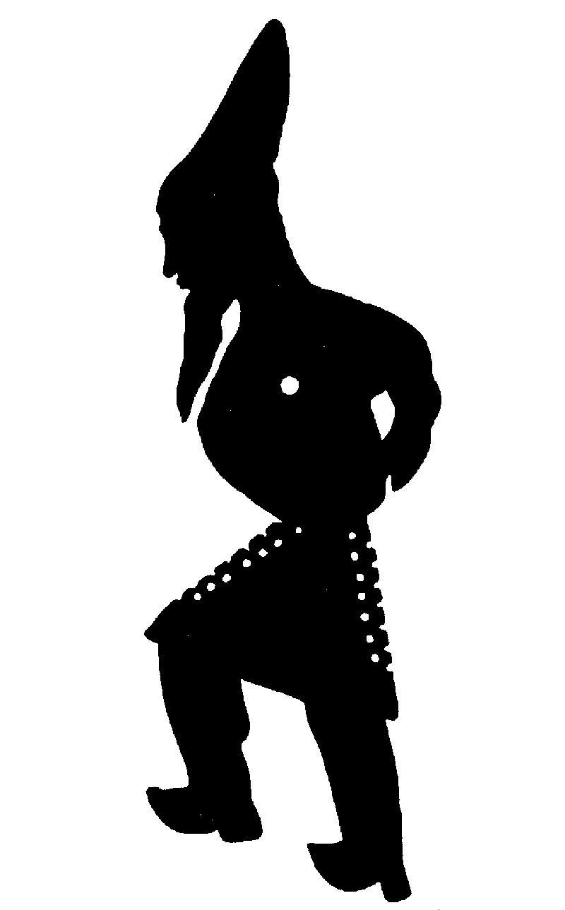 Haziwaz, shadow puppet, Libya